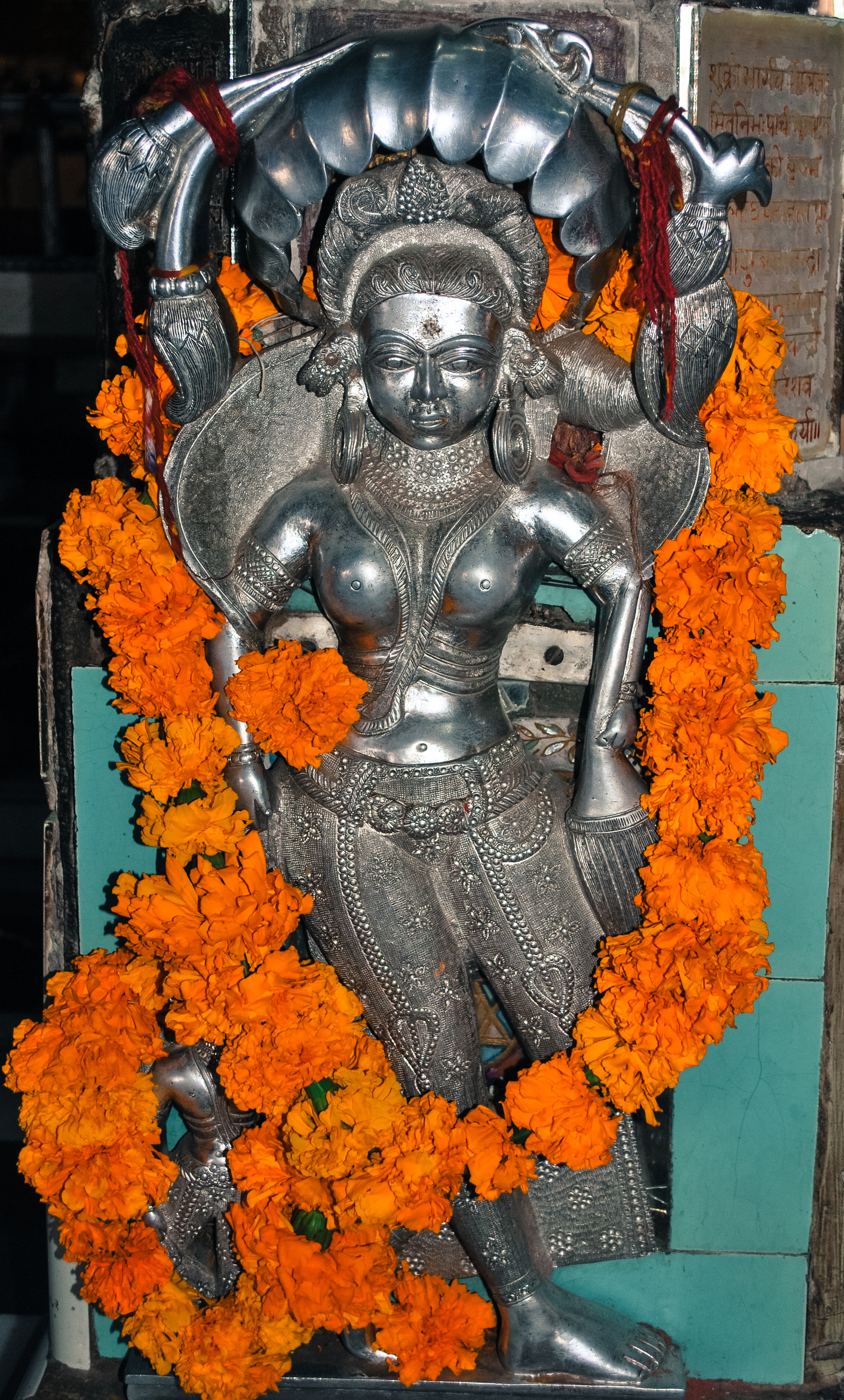 The temple and Architecture of Osiya, Rajasthan